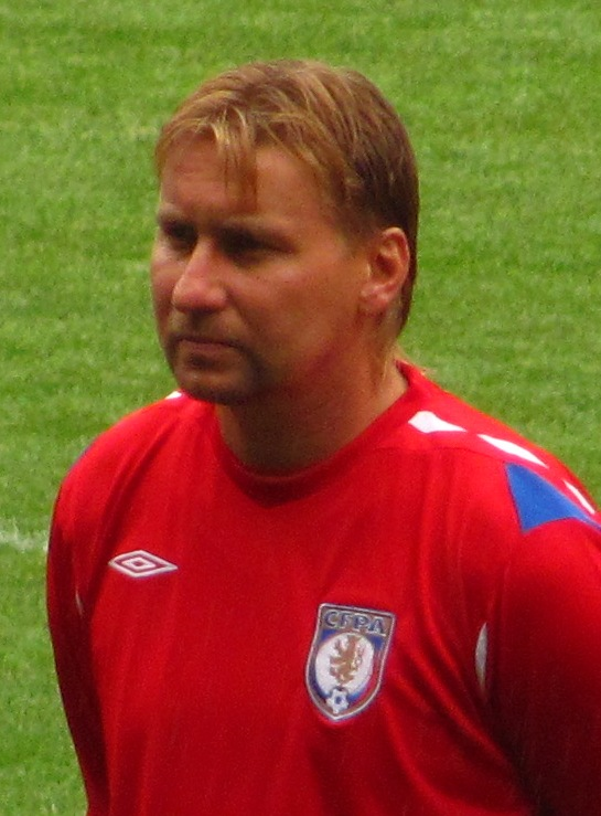 Horst Siegl, Czech football player